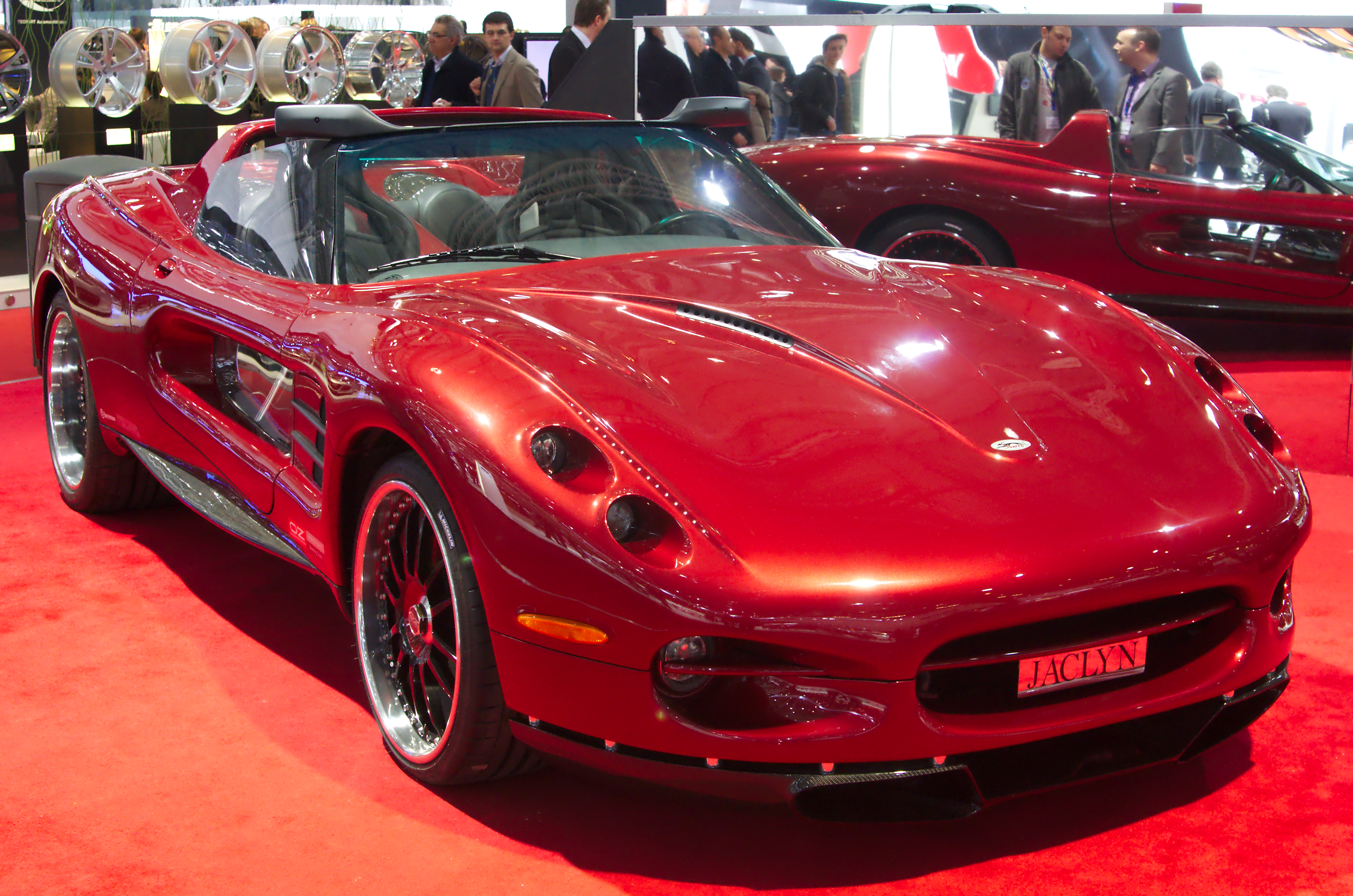 Geneva MotorShow 2013 - Sbarro Jaclyn front